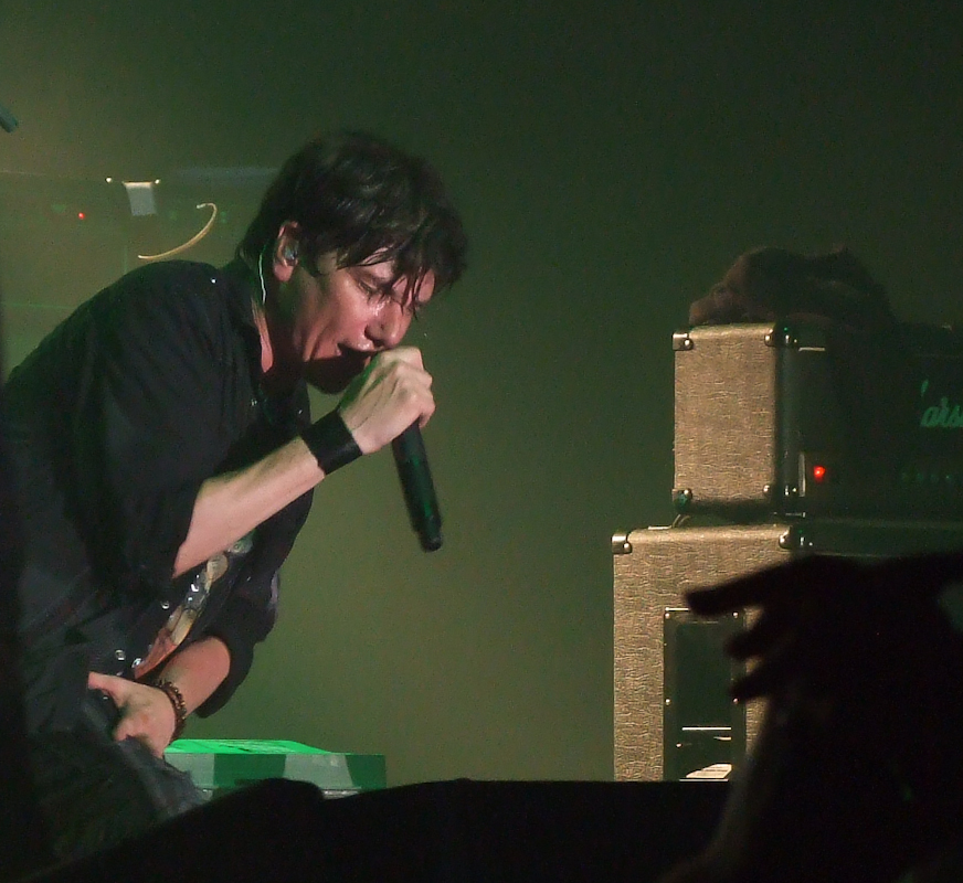 Eric Martin - vocalist of the hard rock band Mr. Big. The photo was taken during the Mr.Big concert at Festivalna Hall, Sofia, Bulgaria.